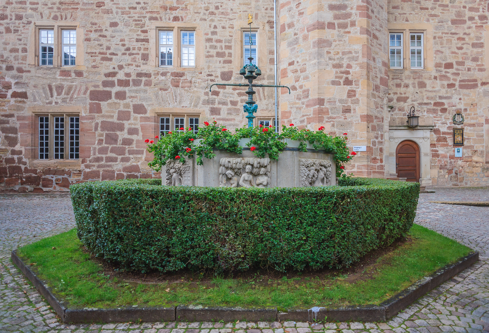 Mother Holle well in the inner bailey of the Eschwege castle in Eschwege, Hesse, Germany. This well was built in 1930 and shows important scenes from the fairytale "Mother Holle" from the Brothers Grimm on its outside in form of reliefs. These reliefs of coquina were designed by Professor Sautter from Kassel and formed into stone by the sculptor Sauer from Warburg/Westf.